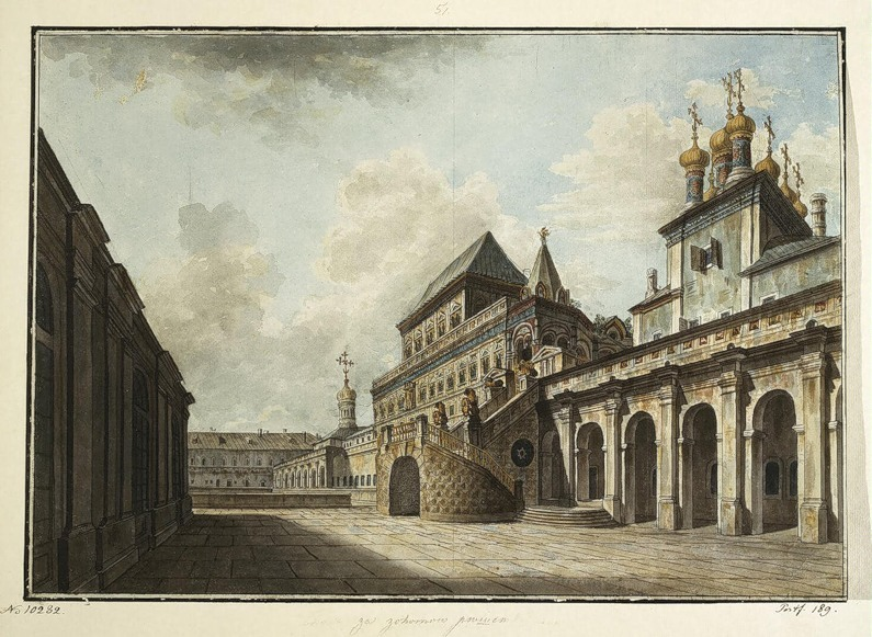 en: Fedor AlekseevTitle